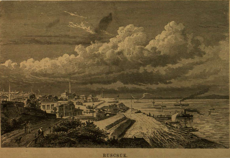 Ruszcsuk, Bulgaria